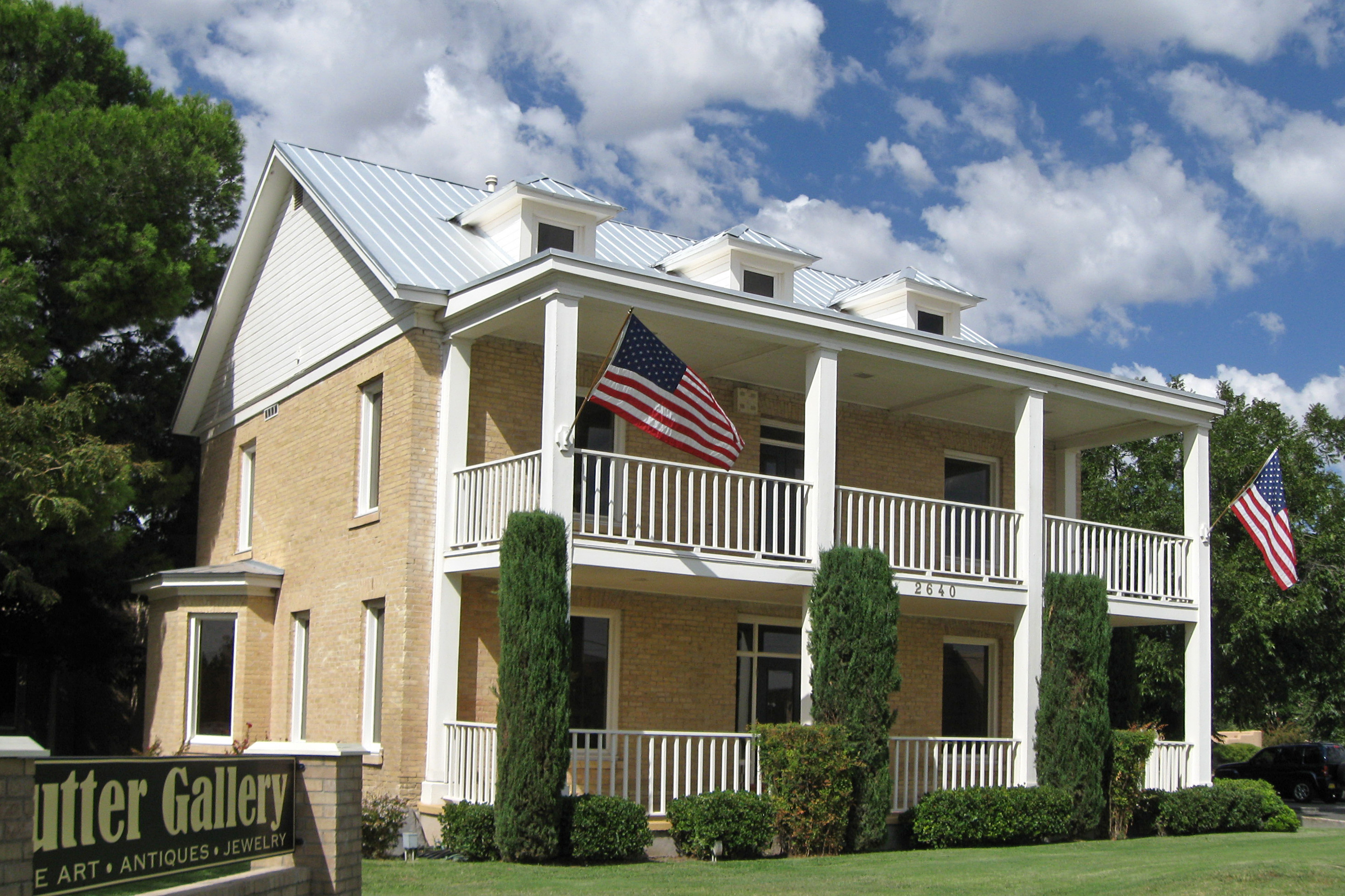 Hadley-Ludwick House, located at 2640 El Paseo Road in Las Cruces, New Mexico. Listed on the National Register of Historic Places, NRIS Item No. 91000352. Now houses the Cutter Gallery.